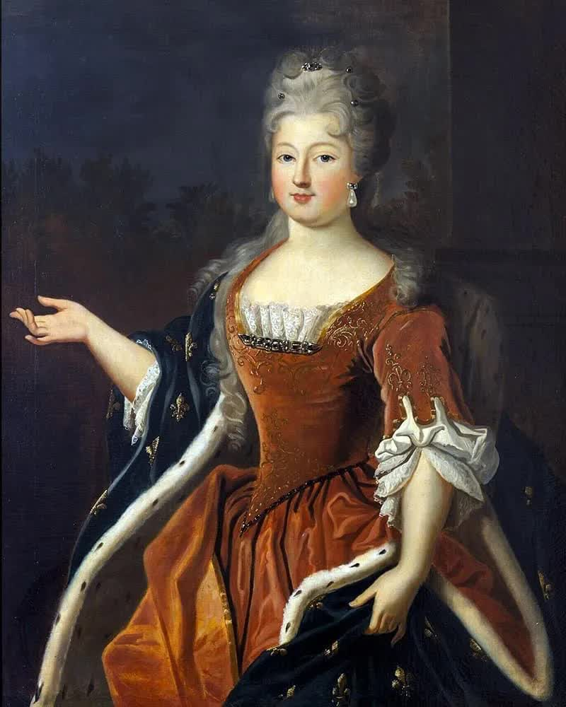 Marie Louise Élisabeth d'Orléans (1695-1719), duchess of Berry